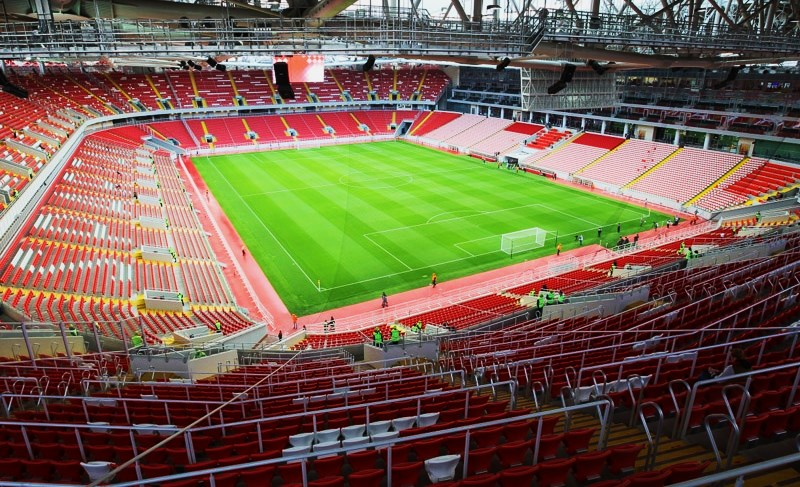 Otkrytie Arena